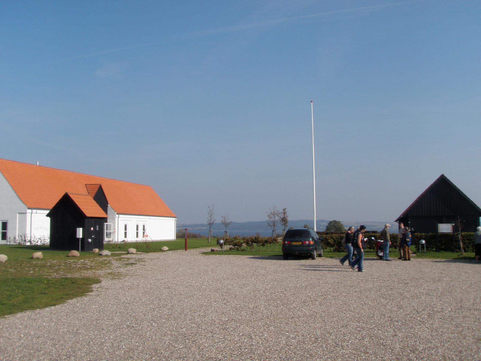 The name Tissø on Sjælland, Danmark is well over 1000 years old and will probably be the god of war Tir or Ty in the Nordic gods mythology. Excavations took place here under the direction of archaeologist Lars Jørgensen in 1995-2003. Rich discoveries, among other weapons, suggesting that there has been a ritual sacrifice to the holy lake in the early Iron Age (Merovingians time - the Viking period), then one of Europe's largest ch richest settlements with the great man's residence, commercial and cult center was in the Western side of the lake of the same name as the site. Archaeological artifacts found at archaeological sites are numerous, showing import objects, and wealth, for example, is a necklace of gold at 2 kg. Lake Tissø was navigable by ships of antiquity, from the sea and along Halleby on to the port at the settlement Tissø. Chief farm in Viking times consisted of seven buildings on an area of 20 000 square meters. Hall building was 48 meters long and 12 ½ meters wide or 500 square meters, whose pole holes are marked at the bird tower at the lake. Trade stalls were at the lake and the river Halleby A large area of the pit house for short stays shows that this is collected an entire district for religious gatherings during pagan times. The place lost its importance since the Middle Ages began and the center of power moved to the other side of the lake, where the church was built in Sæby and Hvide family lived in a mansion.